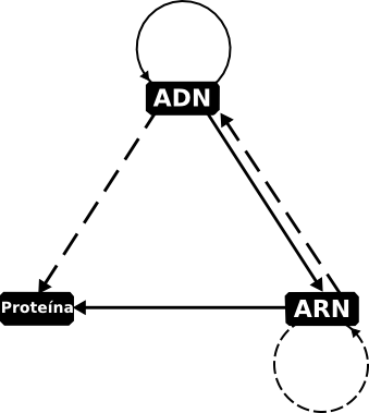 SVG version of Image:CentralDogma1970.gif. Created in Inkscape by User:Sbrools